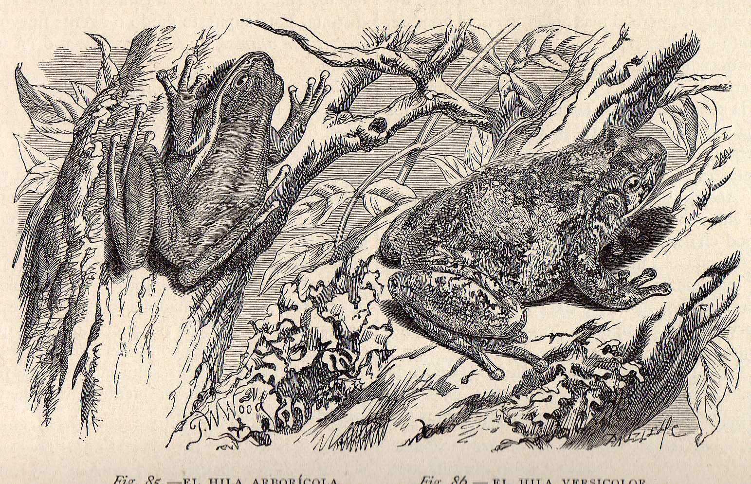 Hyla arboricola is a species of frog in the Hylidae family. It is endemic to Mexico. The Gray Tree Frog (Hyla versicolor), written more commonly as one word as Gray Treefrog, is a species of small arboreal frog native to much of the eastern United States and southeastern Canada.